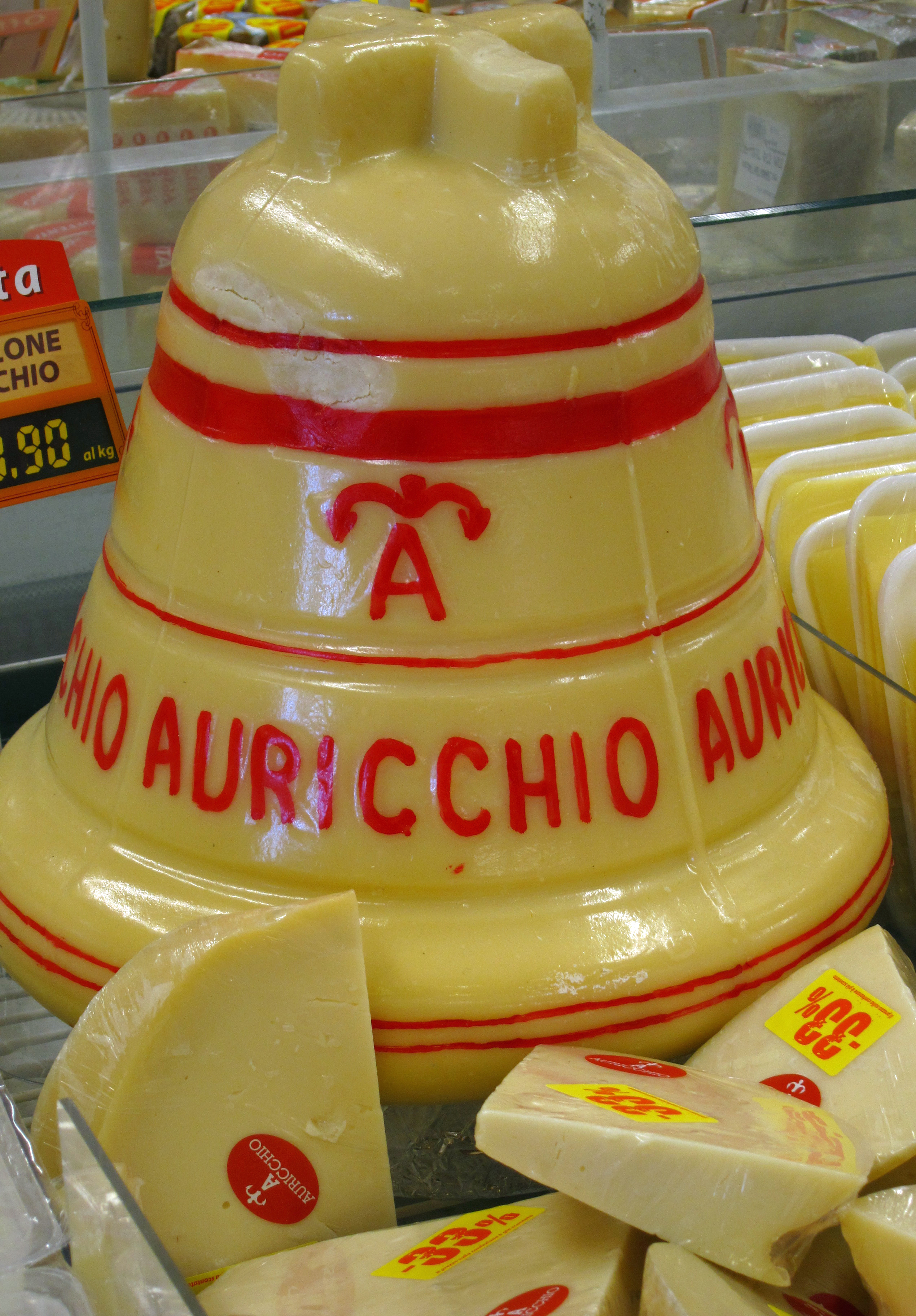 A bell of Auricchio - Italy